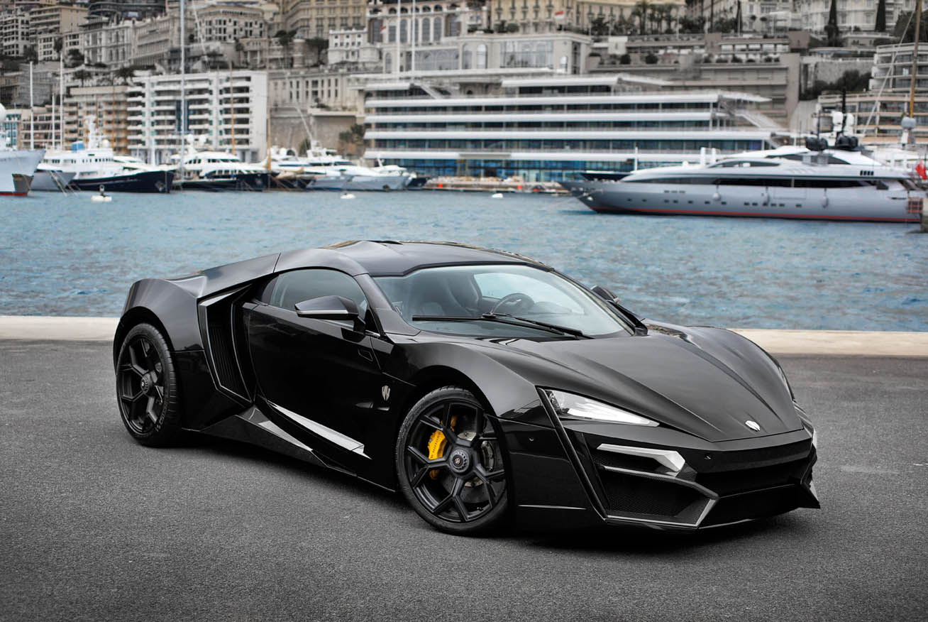 The image depicts the Lykan HyperSport by W Motors, at Port Hércule in Monaco. The photo dates back to April 2014.